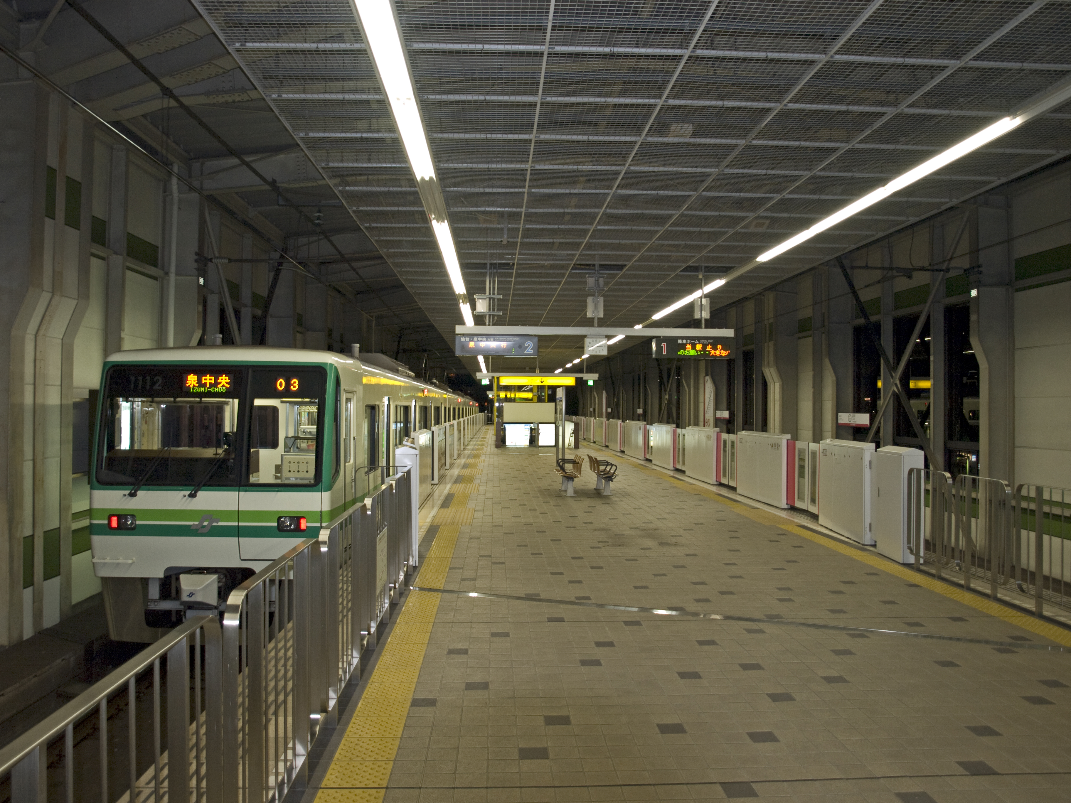 Tomizawa Station platforms at night, Sendai Metro